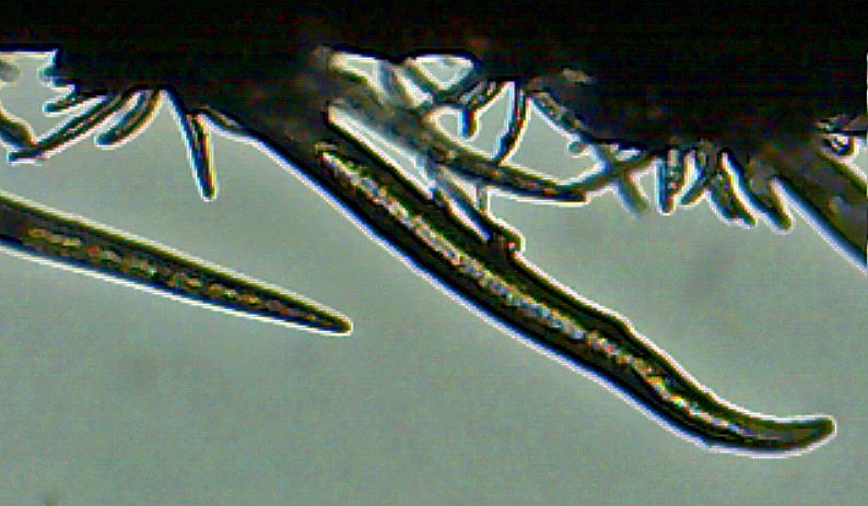 Potentilla pusilla - characteristic hairs (0.05-1.2 mm)